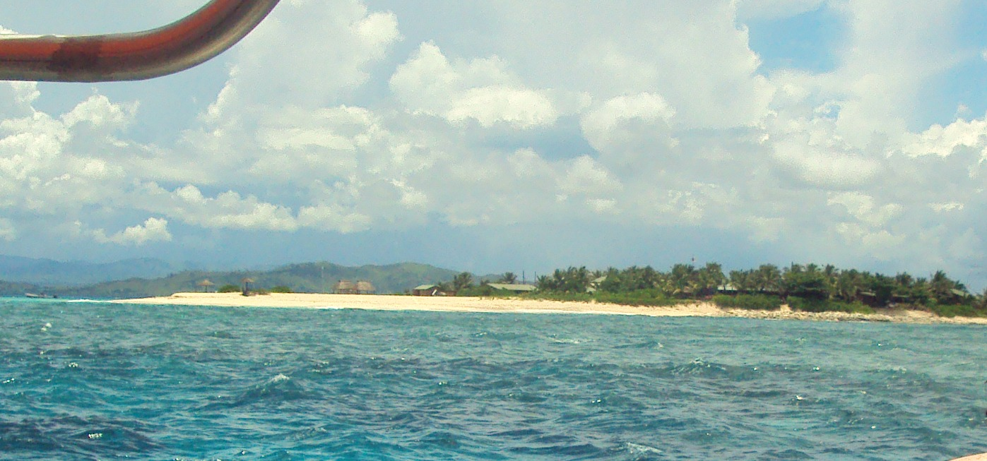 Tivua Island, in the Mamanucas Islands, Fiji, February 2011